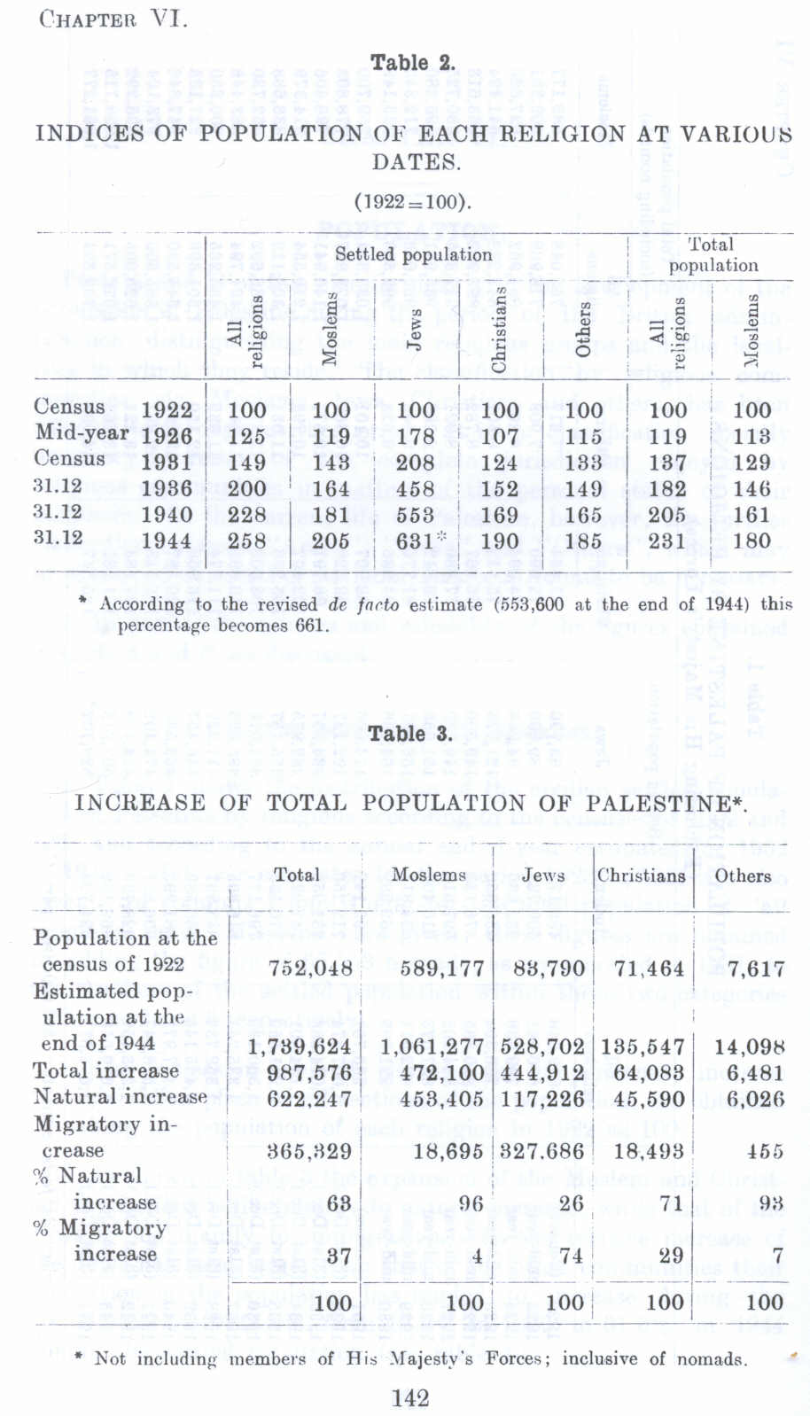 Survey of Palestine Page 142